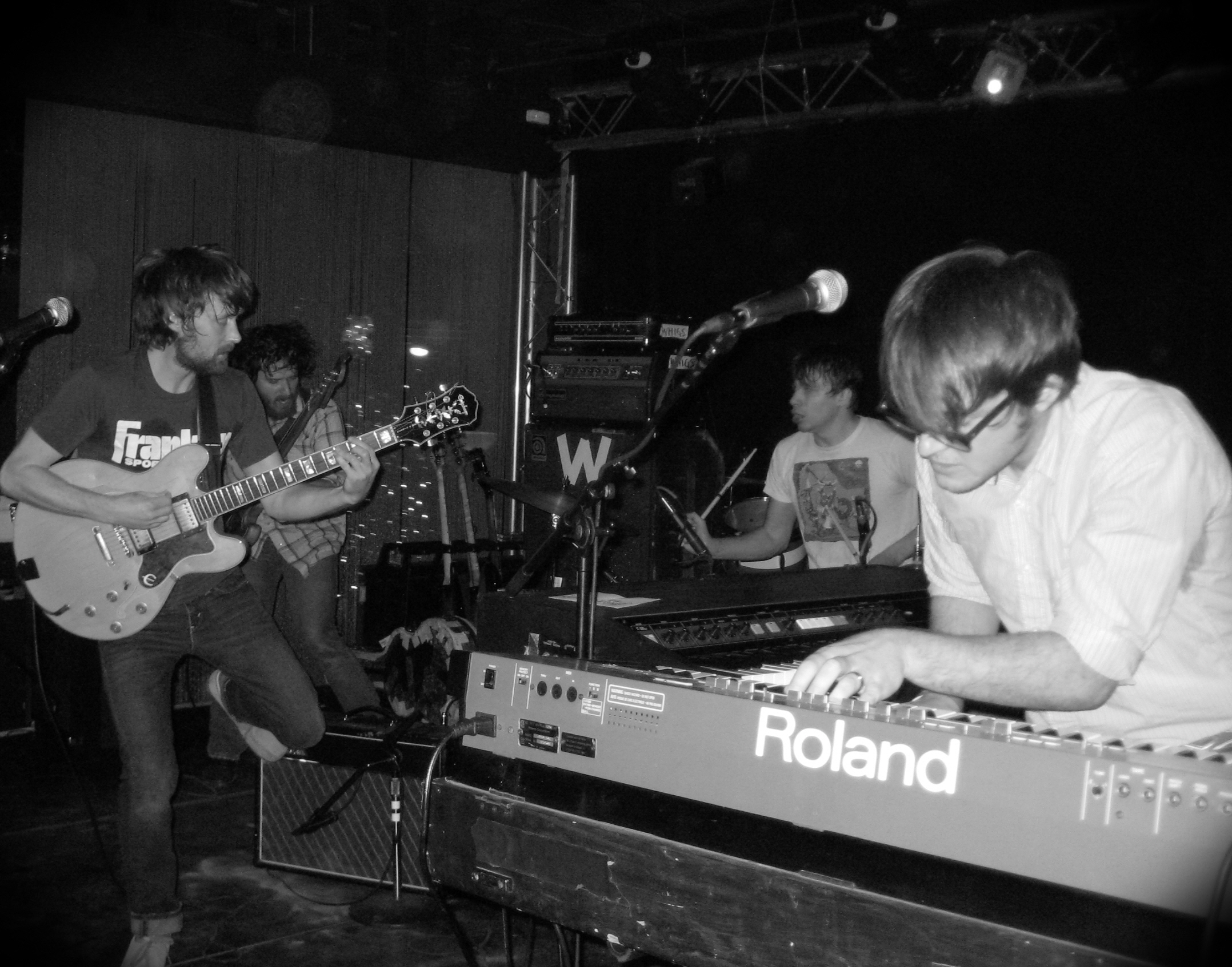 The Features perform at The Loft in Dallas, TX on 12/02/09. The Features 120209 (81crbwf): The Features perform at The Loft in Dallas, TX on 12/02/09. License on Flickr (2011-12-21): CC-BY-2.0 Flickr tags: The Features, Matt Pelham, Roger Dabbs, Rollum Haas, Mark Bond, nffcnnr, Dallas, Texas